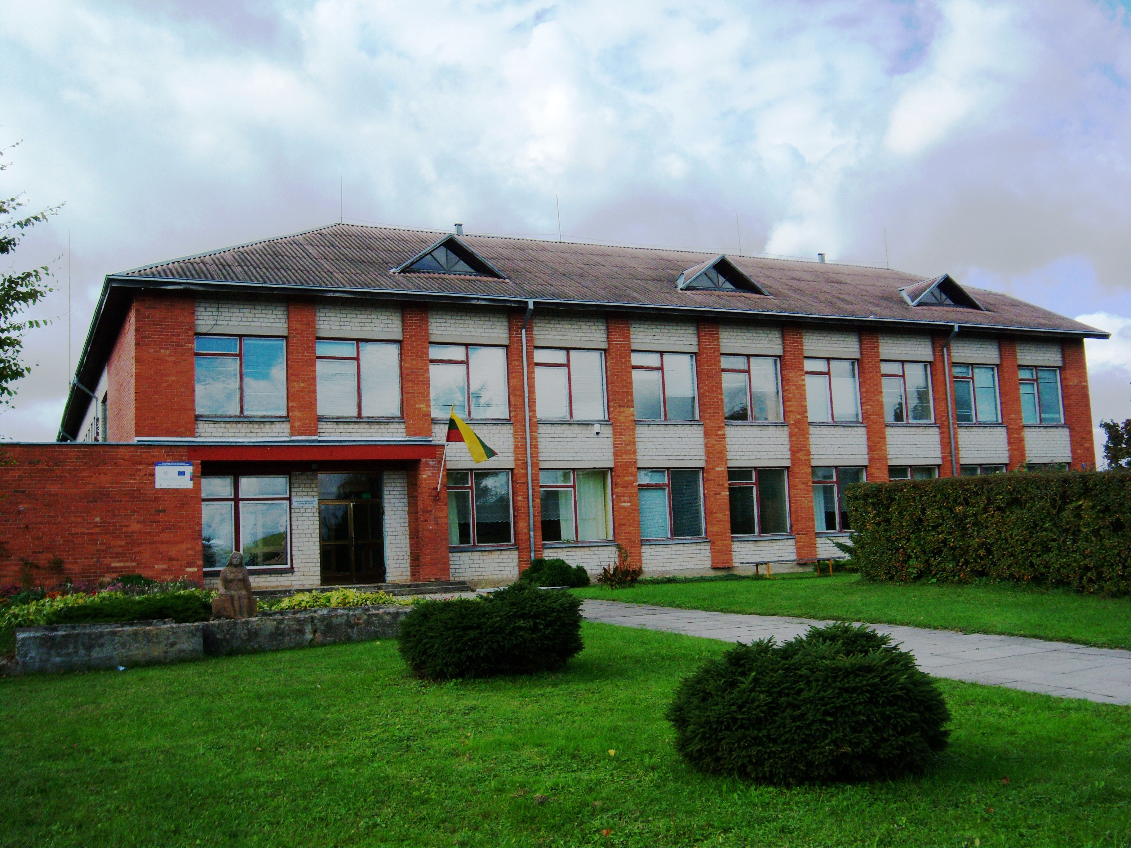 School in Kalviai, Kaišiadorys District, Lithuania